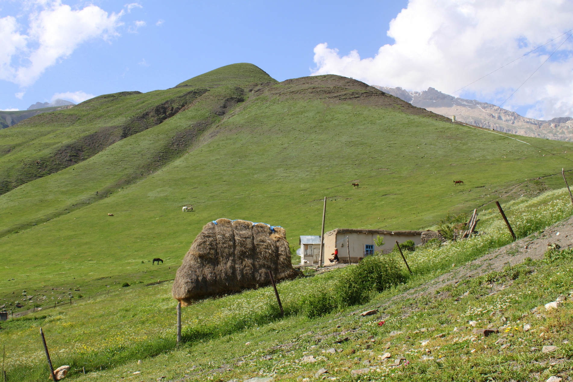 Xinaliq villige Quba, Azerbaijan.